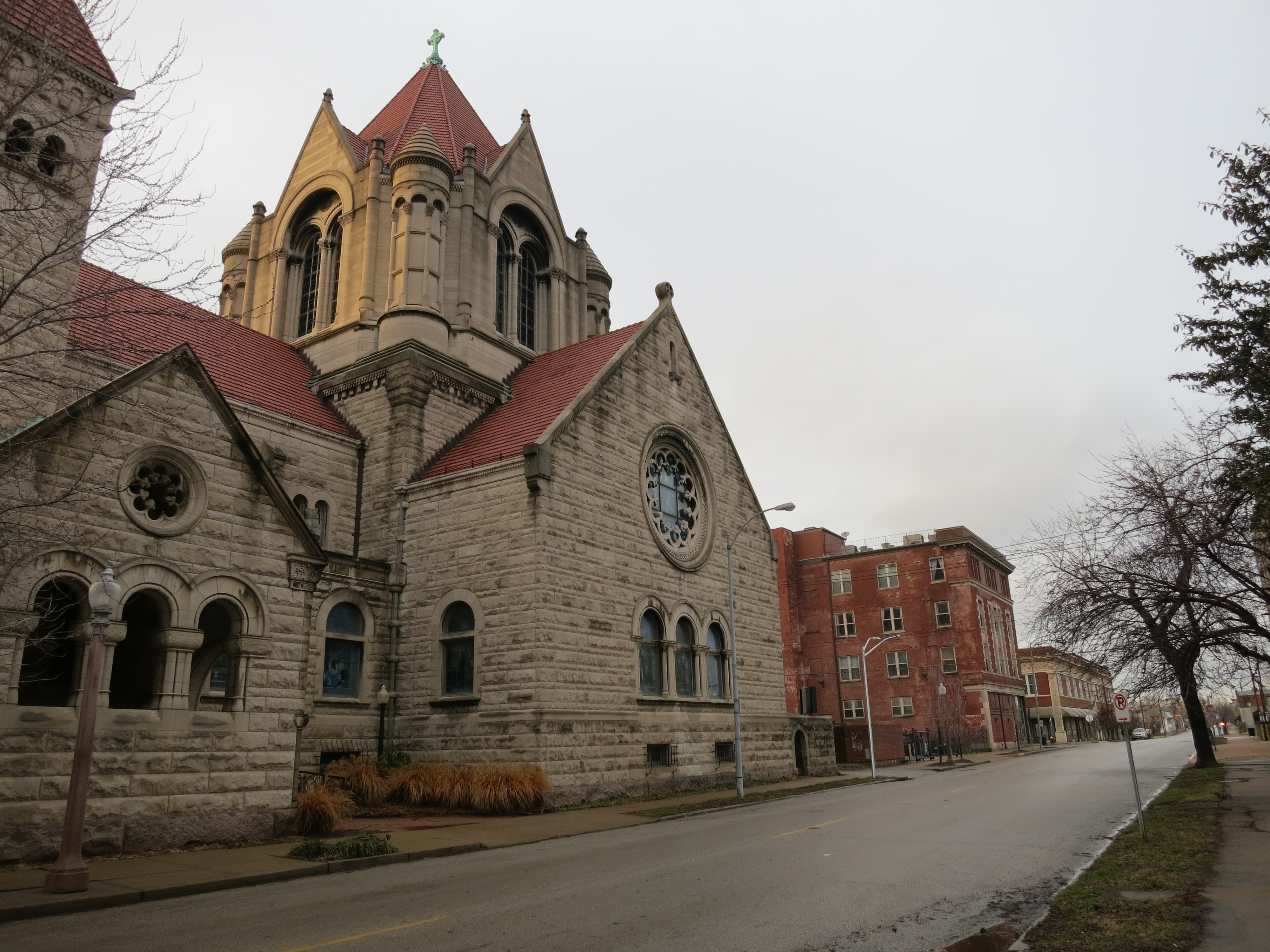 Church on Taylor in the CWE